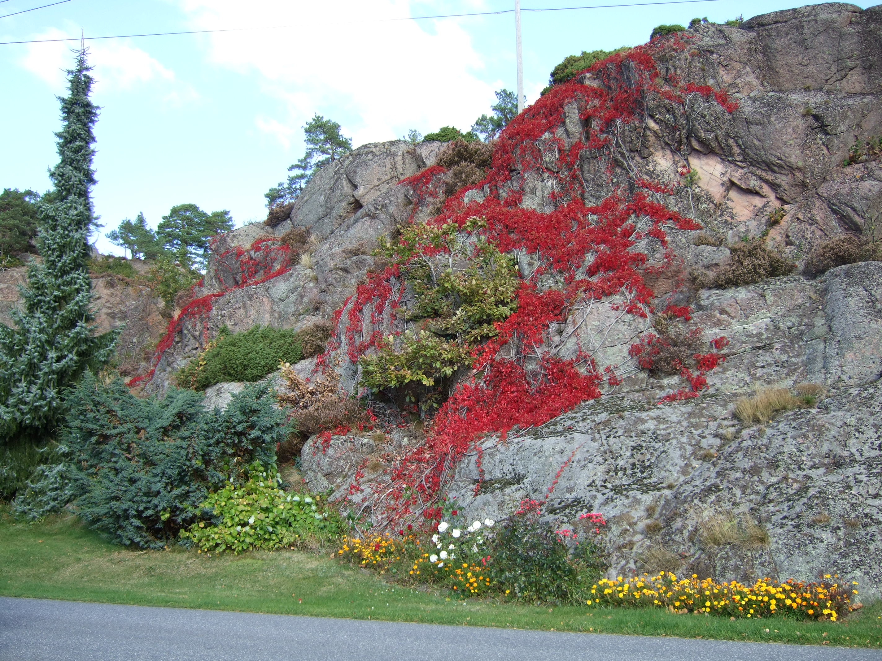 "Parthenocissus" (Parthenocissus quinquefolia). Autumn colours, Grimstad Norway.